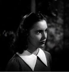 Cropped screenshot of Joan Leslie from the film The Wagons Roll at Night